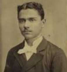 Rómulo Ernesto Durón, graduating as a lawyer in 1888